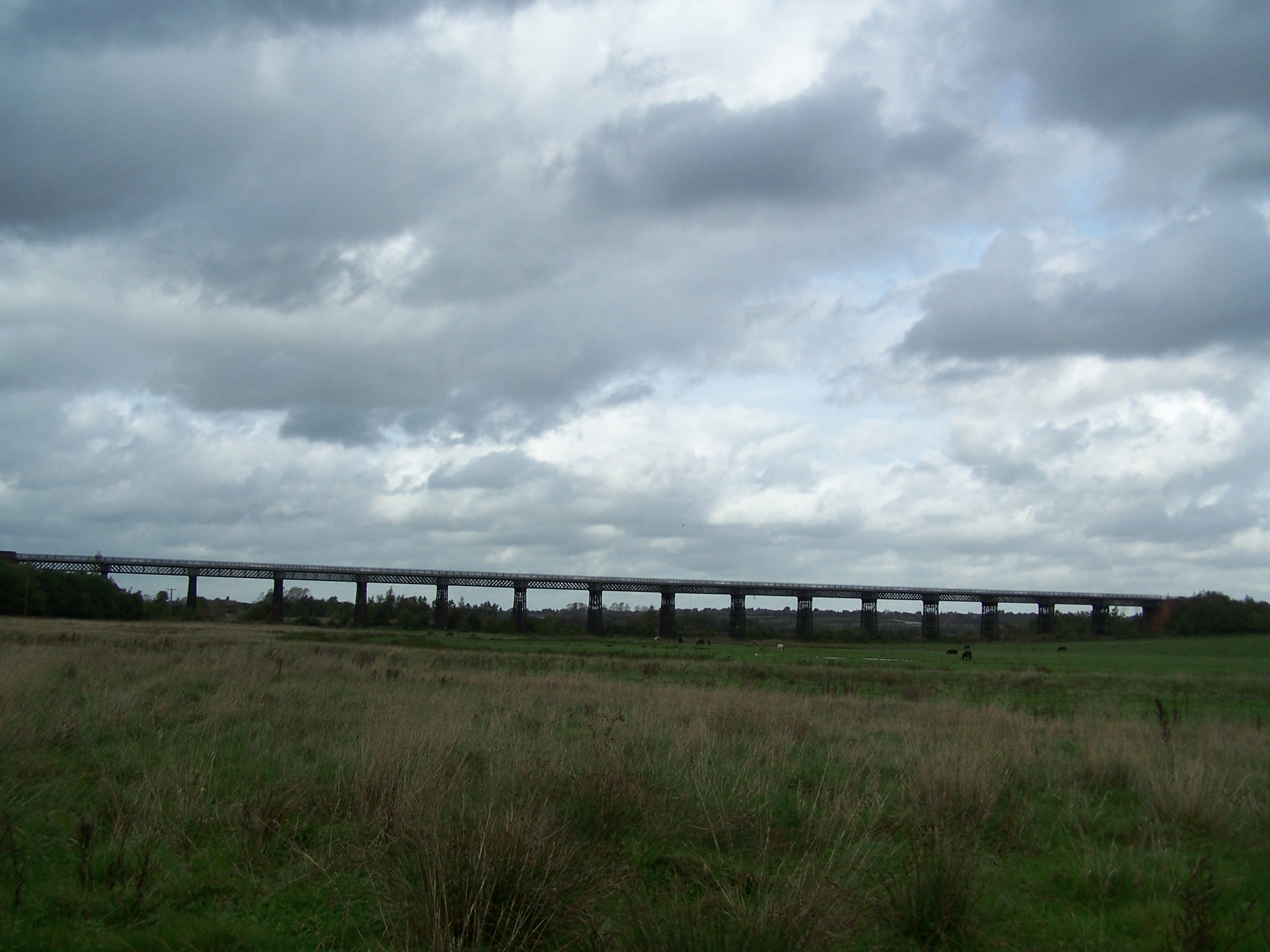 Author: Martin Cordon, Source: Own Picture Martin Cordon 17:40, 21 October 2006 (UTC)